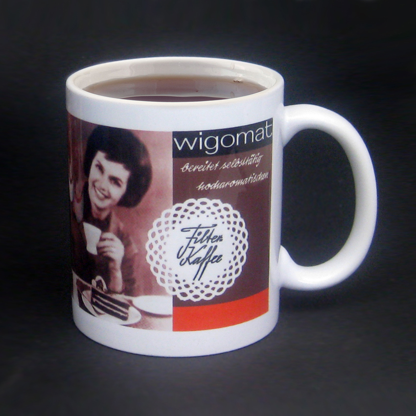 original wigomat coffee mug